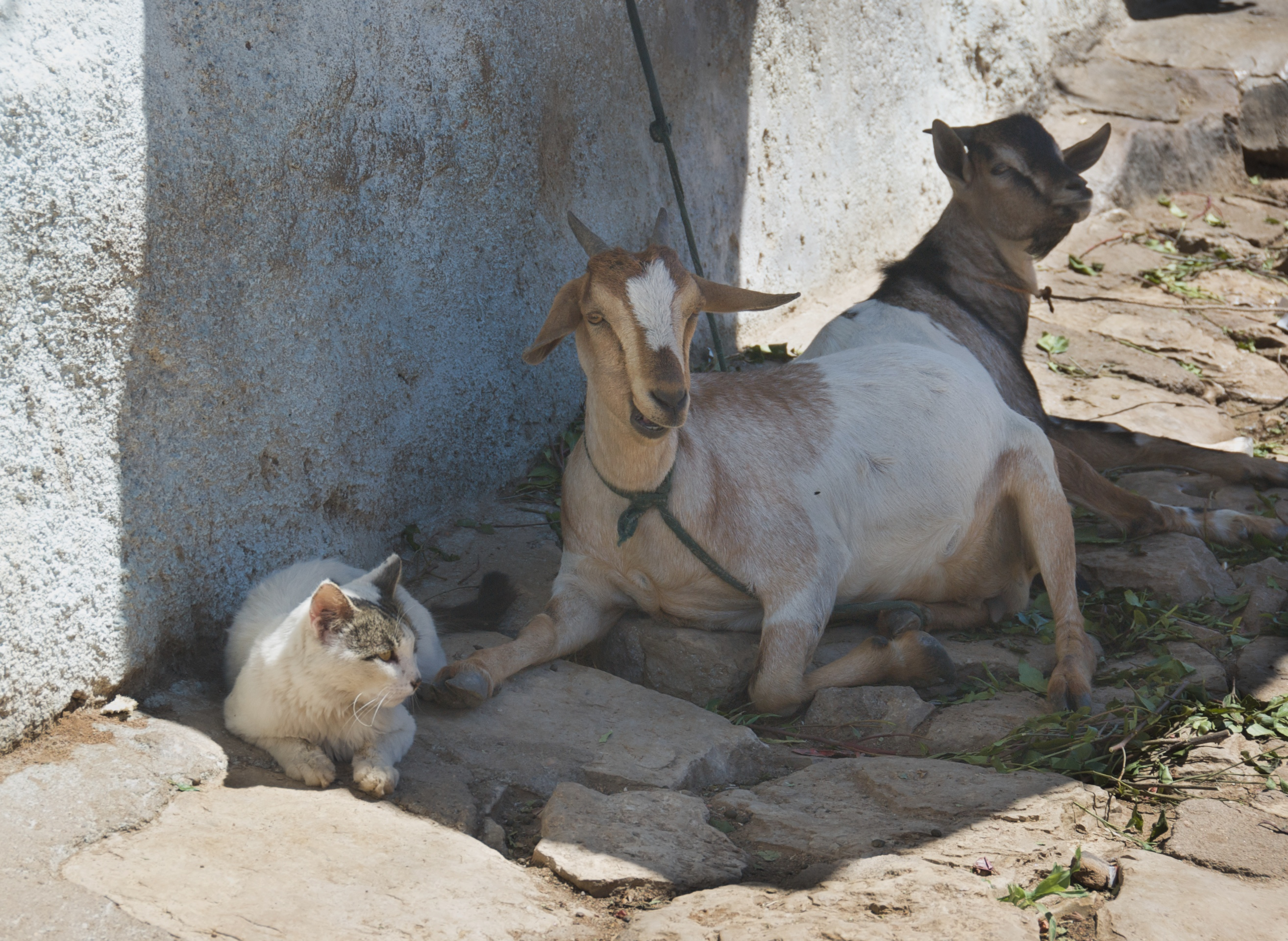 Sharing a bit of shade on the streets of Harar, eastern Ethiopia.